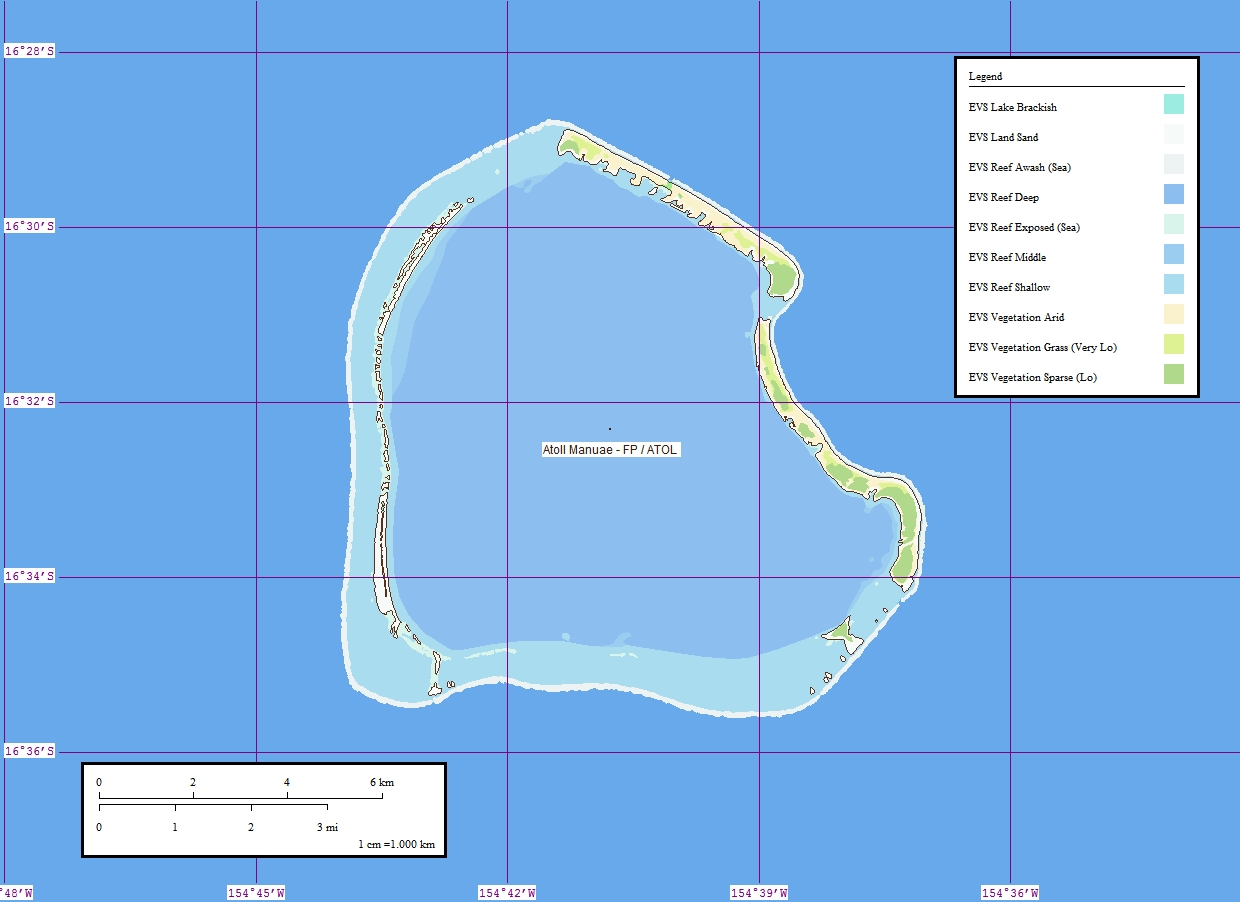 Map of Manuae or Scilly Atoll, Society Islands, French Polynesia